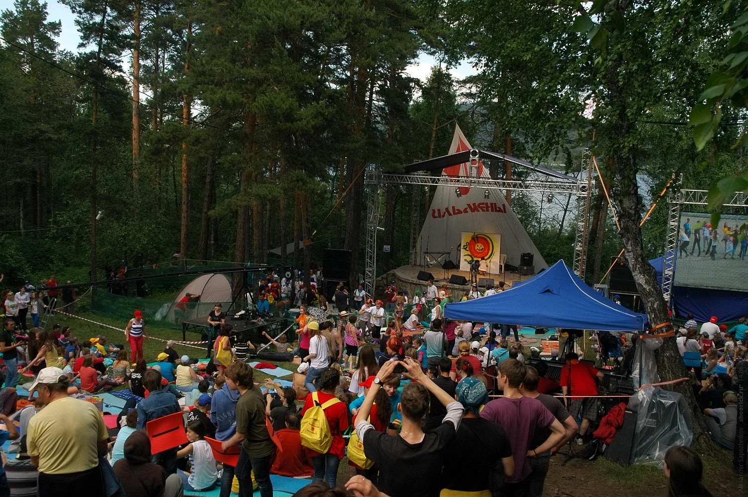 Main stage of 38th Ilmensky Festival